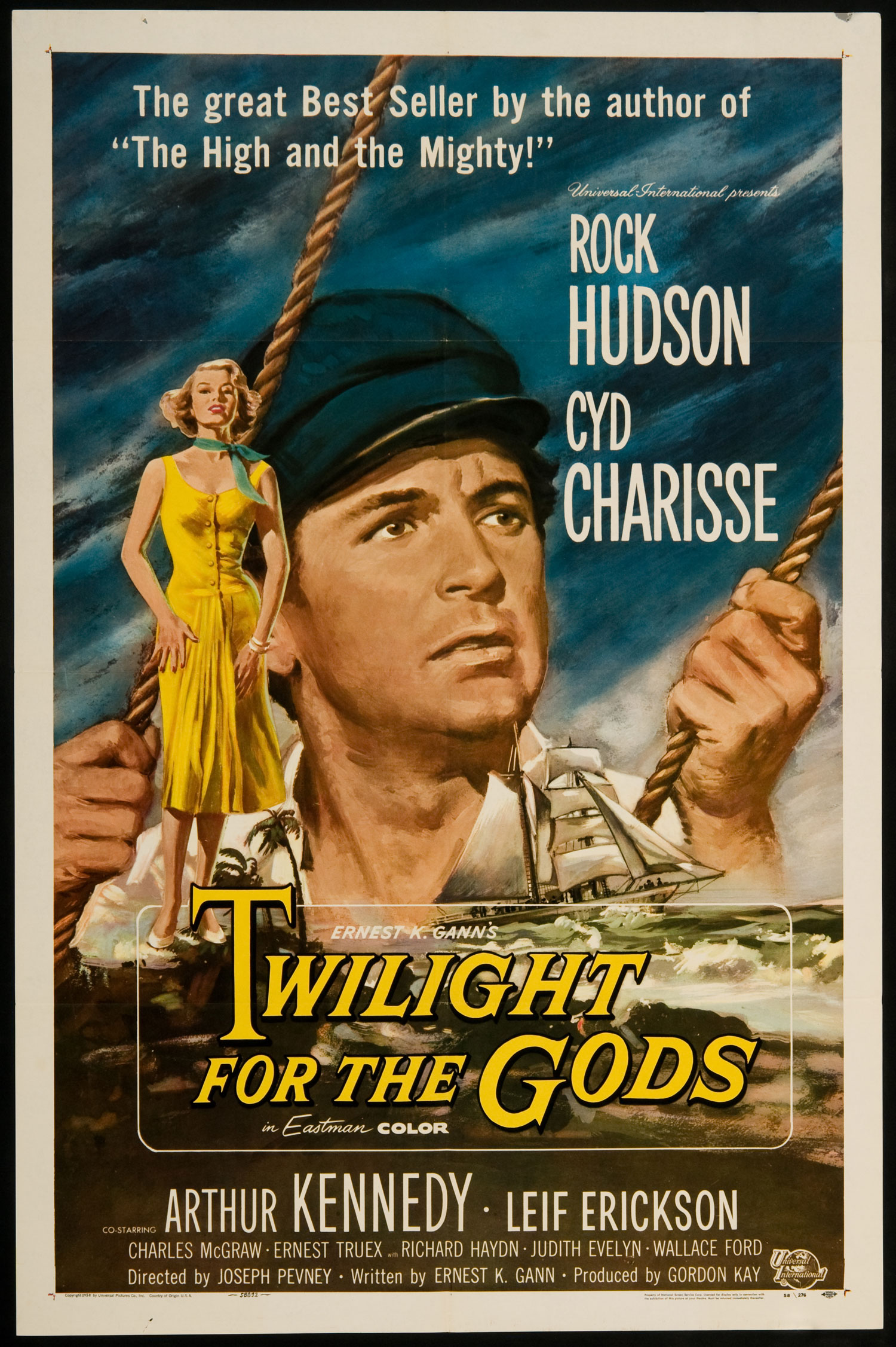 Advertising poster for Twilight for the Gods (1958)